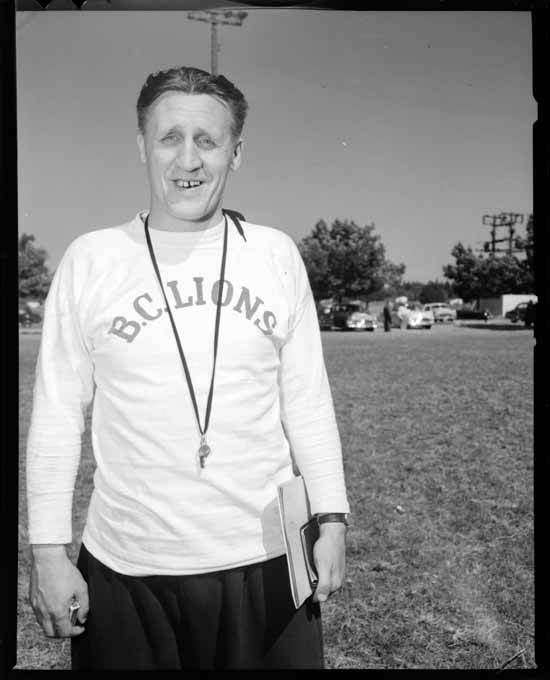 Portrait of Annis Stukus VPL Accession Number: 82591 Date: July 31, 1954 Photographer / Studio: Jones, Art Content: See also 82591A Topic: Portrait Football coaches Location: British Columbia - Vancouver Copyright Restrictions: Public Domain